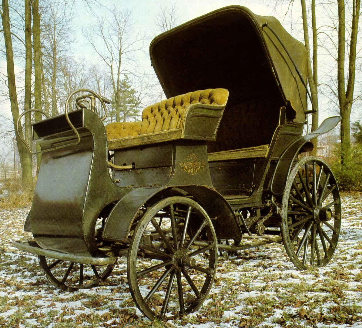 Präsident - first car from Kopřivnice - original car (1897), Photo Archive: O.Ertl